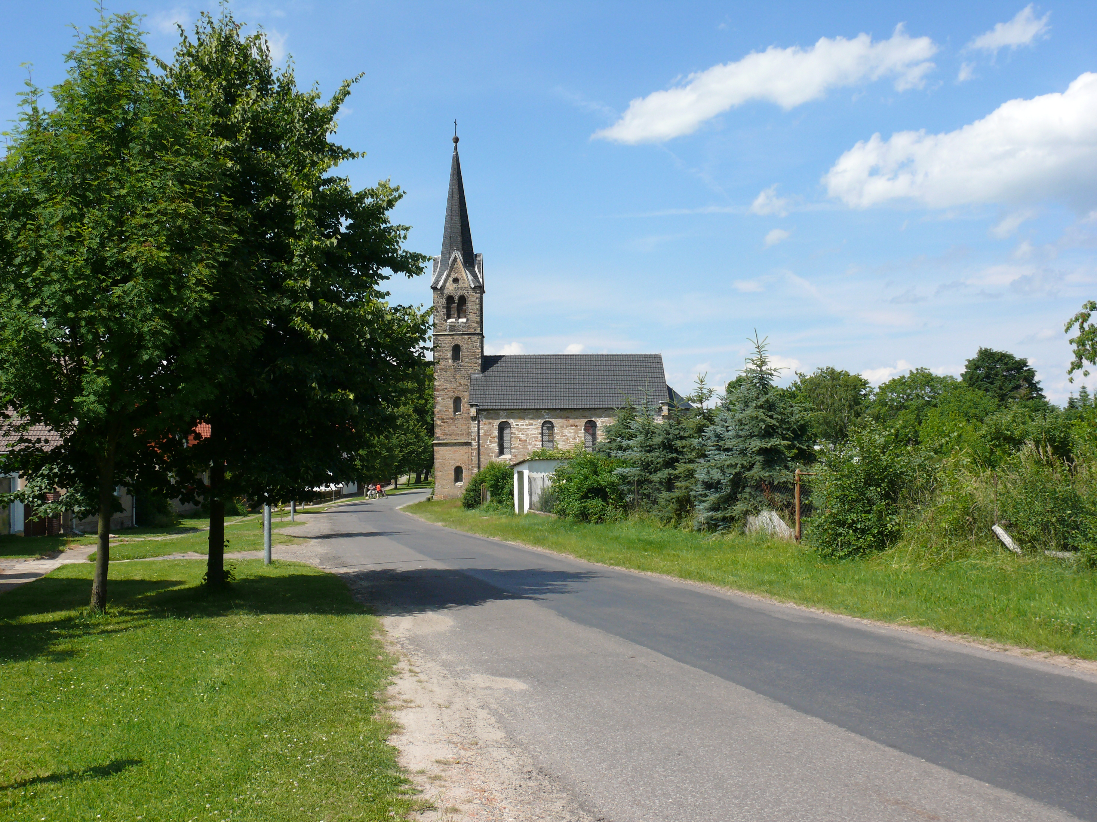 Church in Altbrandsleben